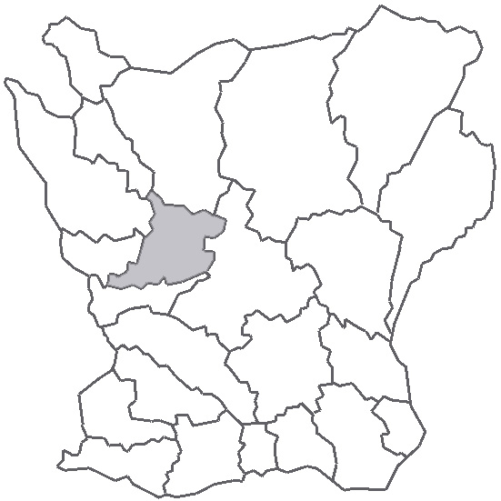 Map describing the location of Onsjö Hundred in the province of Skåne, Sweden.